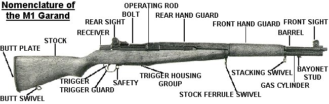 Uploaded from the Army's field manual. Was the first semi-automatic rifle in the world to be generally issued to infantry.